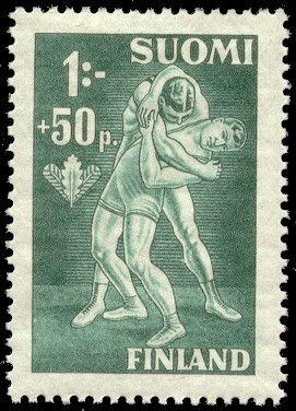 Stamp of Finnish wrestler Oskar Friman